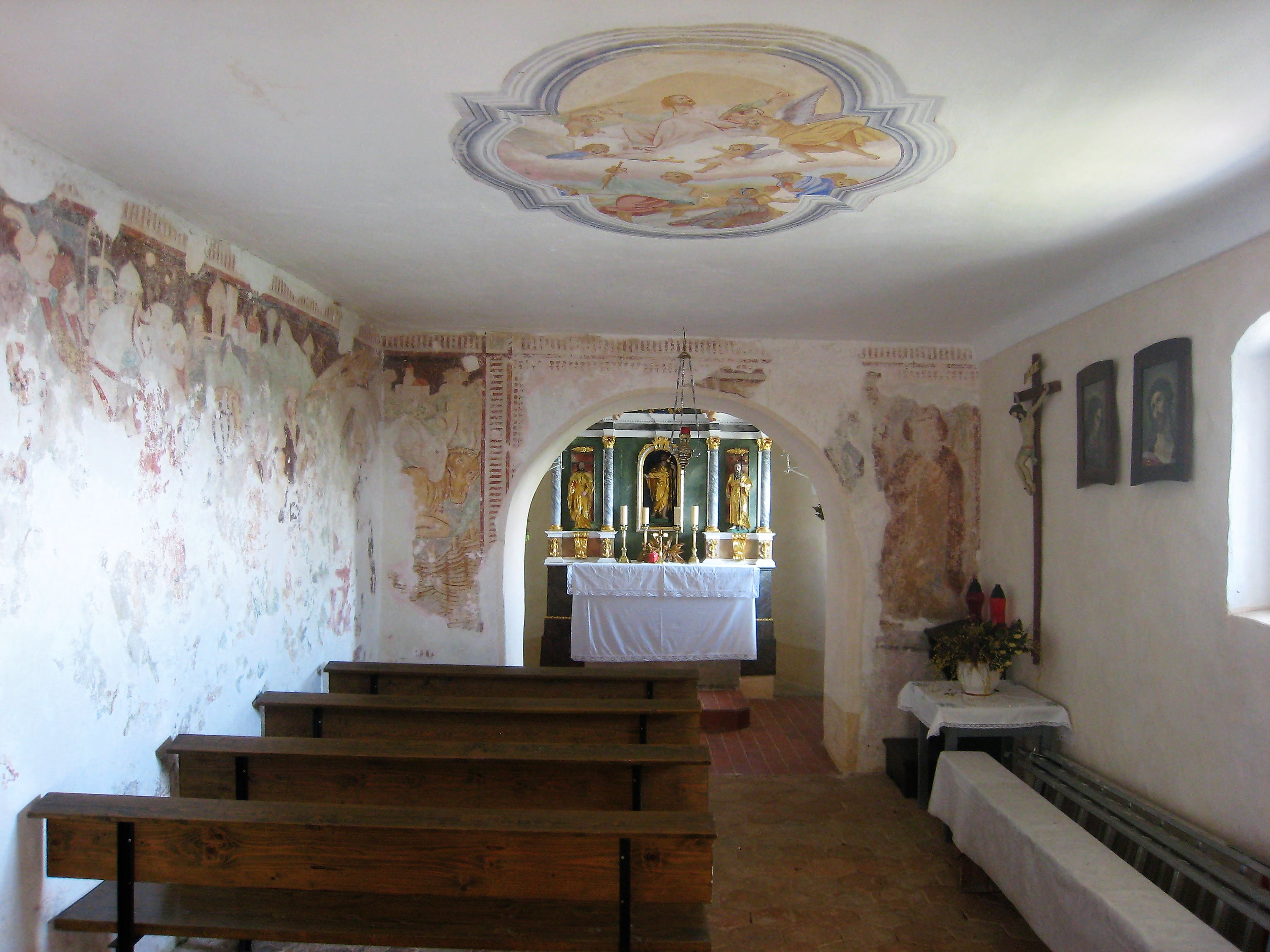 St. James's Church, Potoče: The inside of the church